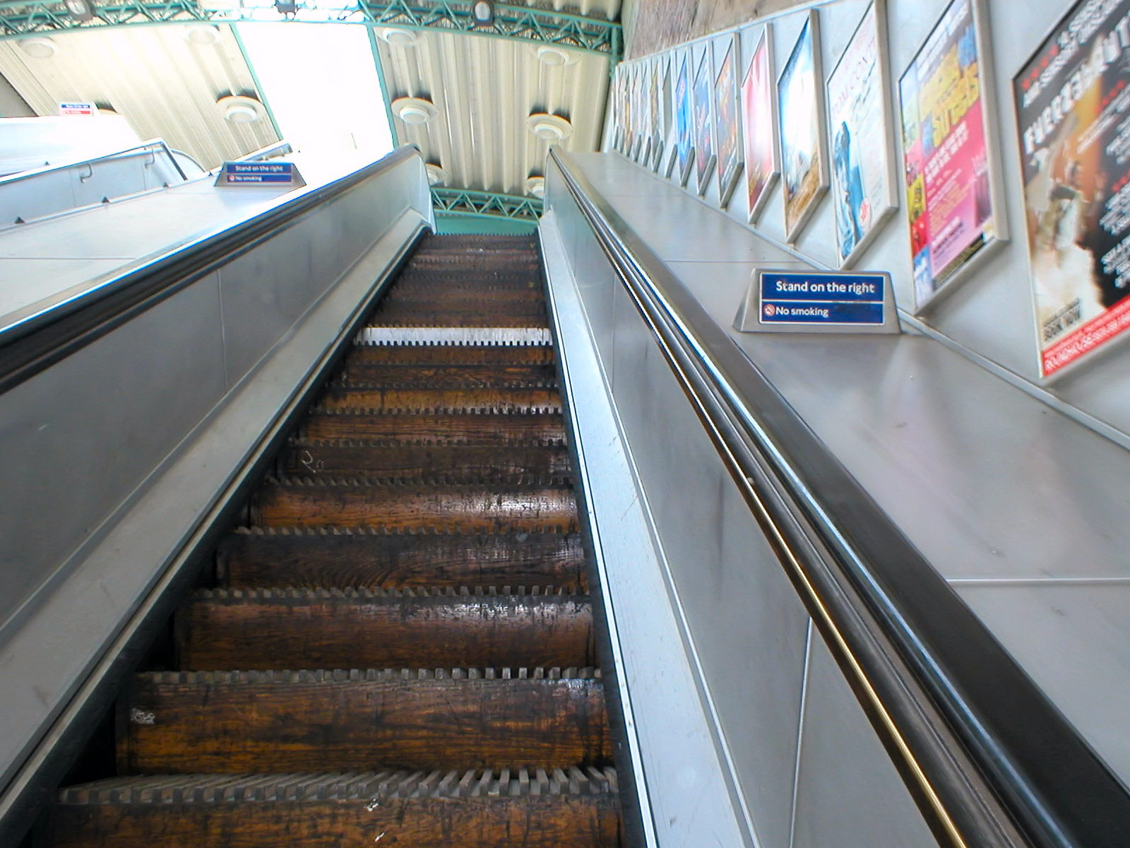 Going up the last wooden escalator on the London Underground, at Greenford station. All others were replaced in the years following the King's Cross fire in 1987. Some of the risers (The vertical part of each 'step') shown in this photo as being manufactured from wood, have since been replaced with metal ones. Note the "no smoking" sign.